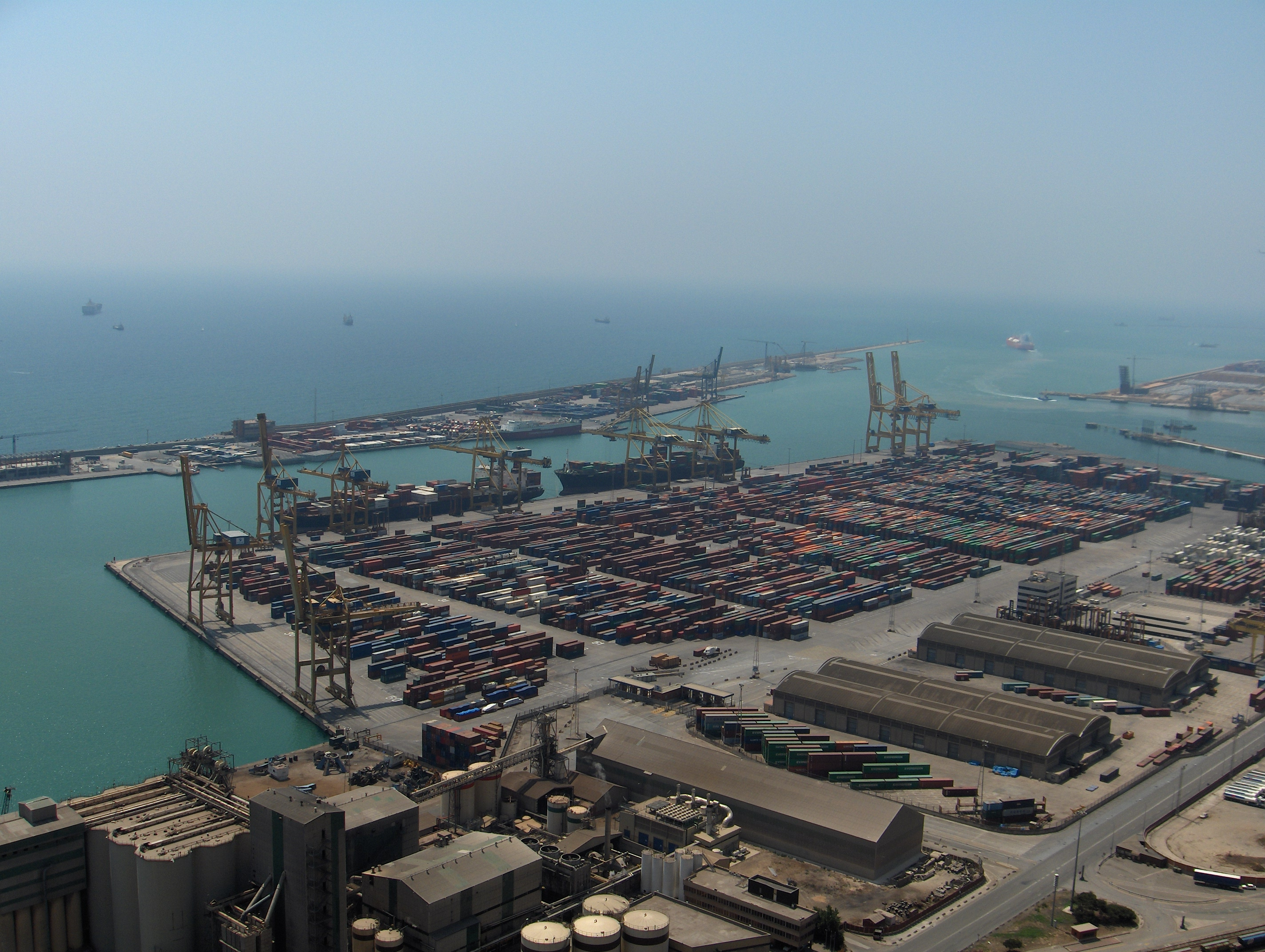 View of Barcelona harbour from Montjuic hill